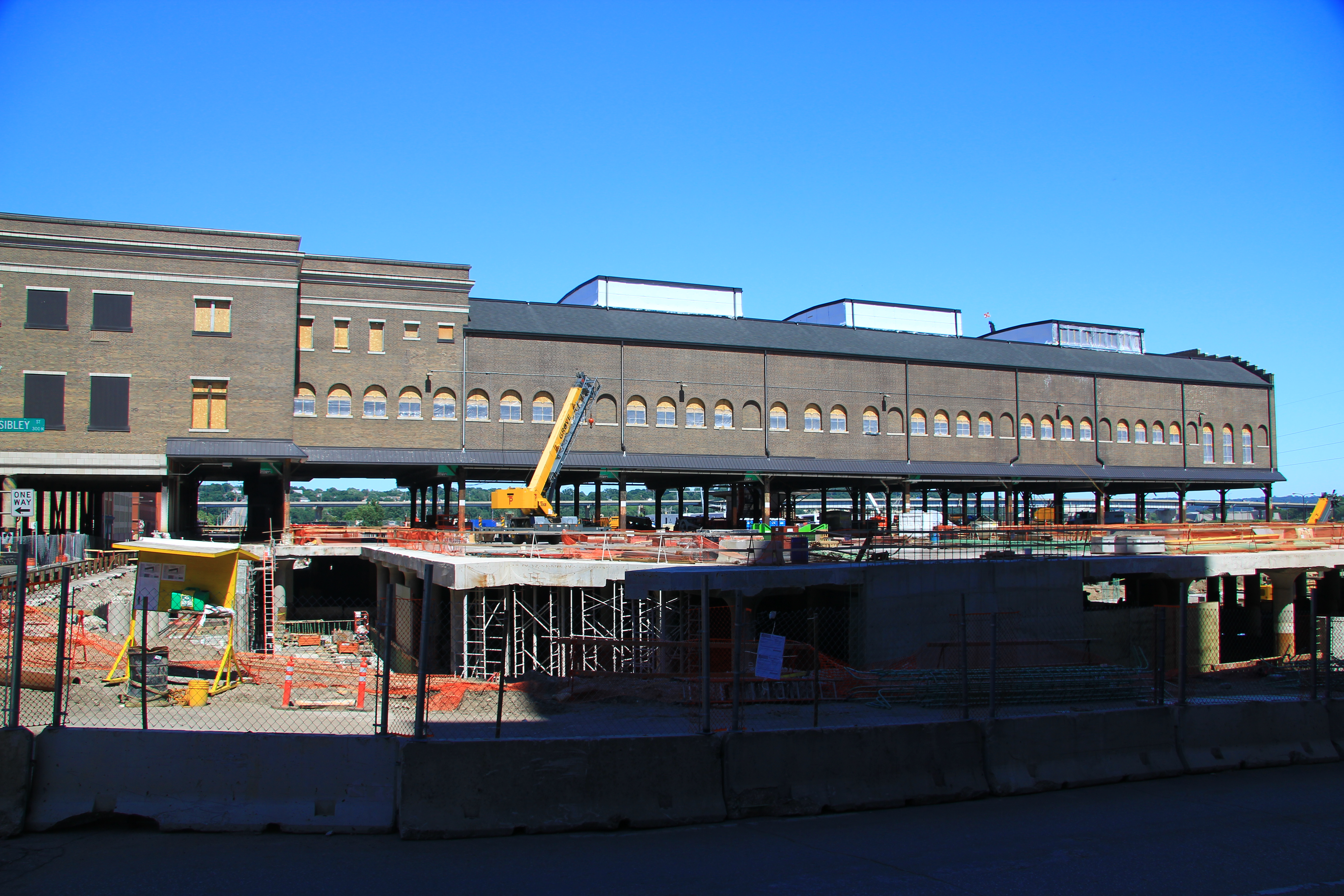 It's pretty amazing to see the Saint Paul Union Depot concourse after being hidden behind a U.S. Postal Service loading dock for decades (probably my whole lifetime or more). The USPS building and the skyways connecting it to the main post office building (behind me) were among the first things to go when the restoration of the depot began.